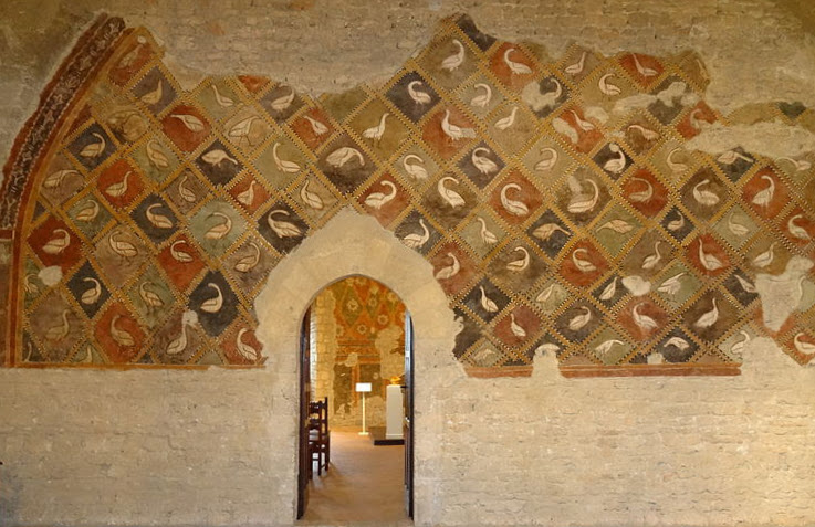 Palazzo papale anagni,sala delle oche